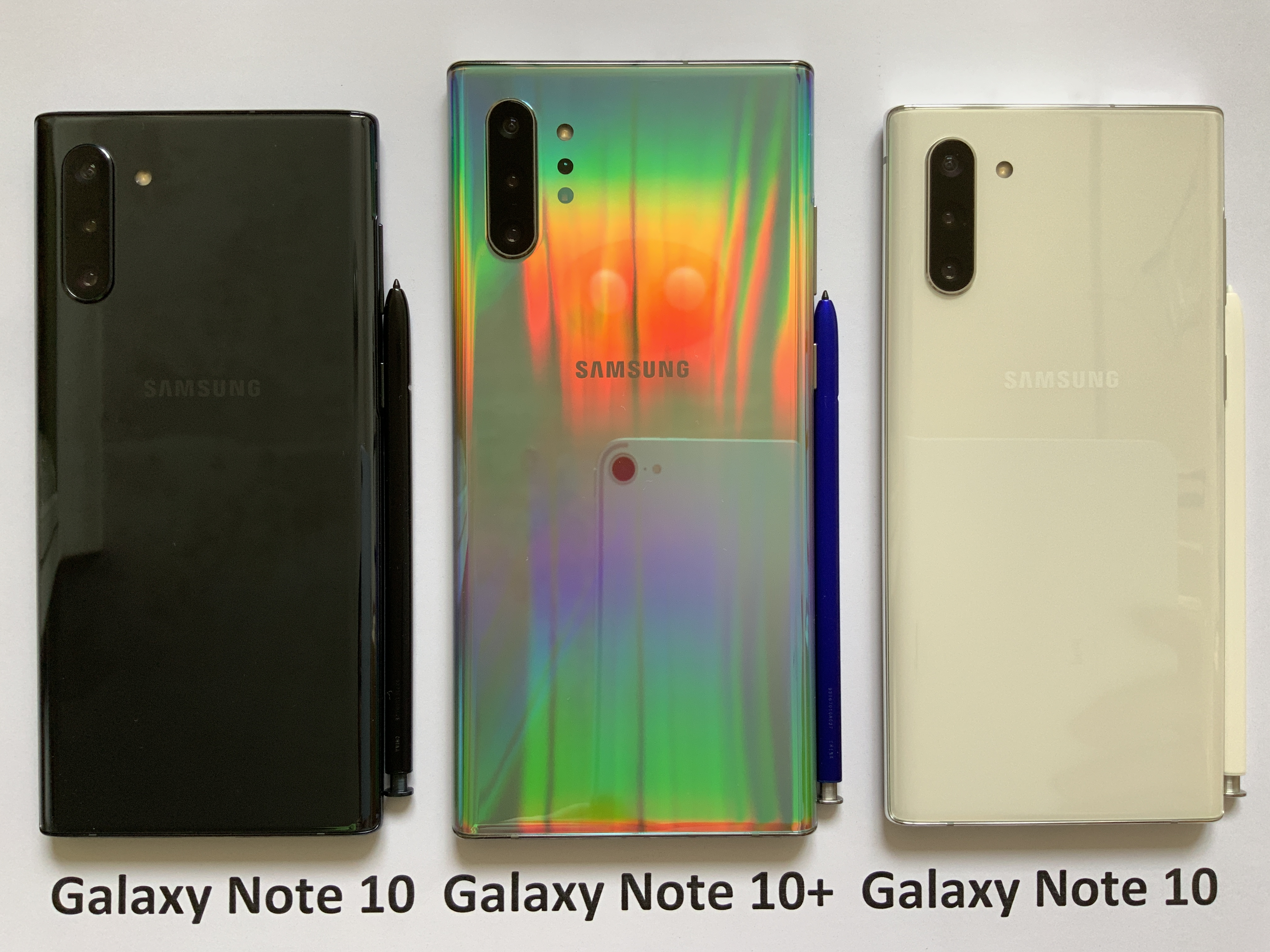 SAMSUNG Galaxy Note10 SAMSUNG Galaxy Note10 5G SAMSUNG Galaxy Note10+ SAMSUNG Galaxy Note10+ 5G